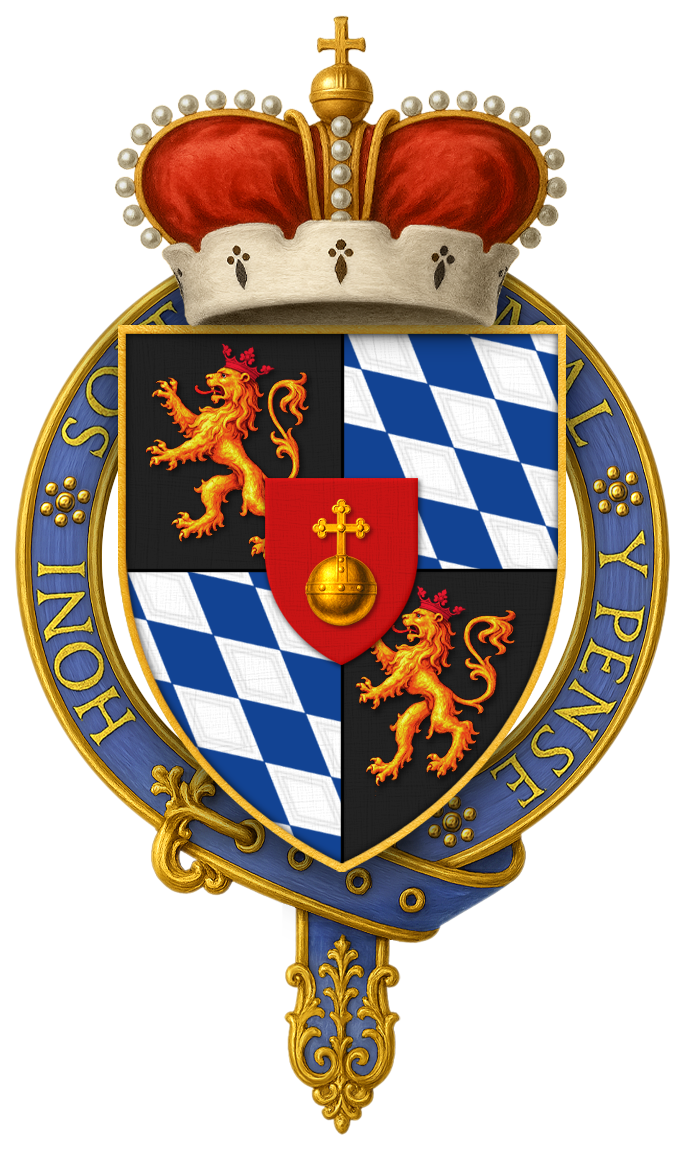 Gartered coat of arms of Charles II, Elector Palatine, KG